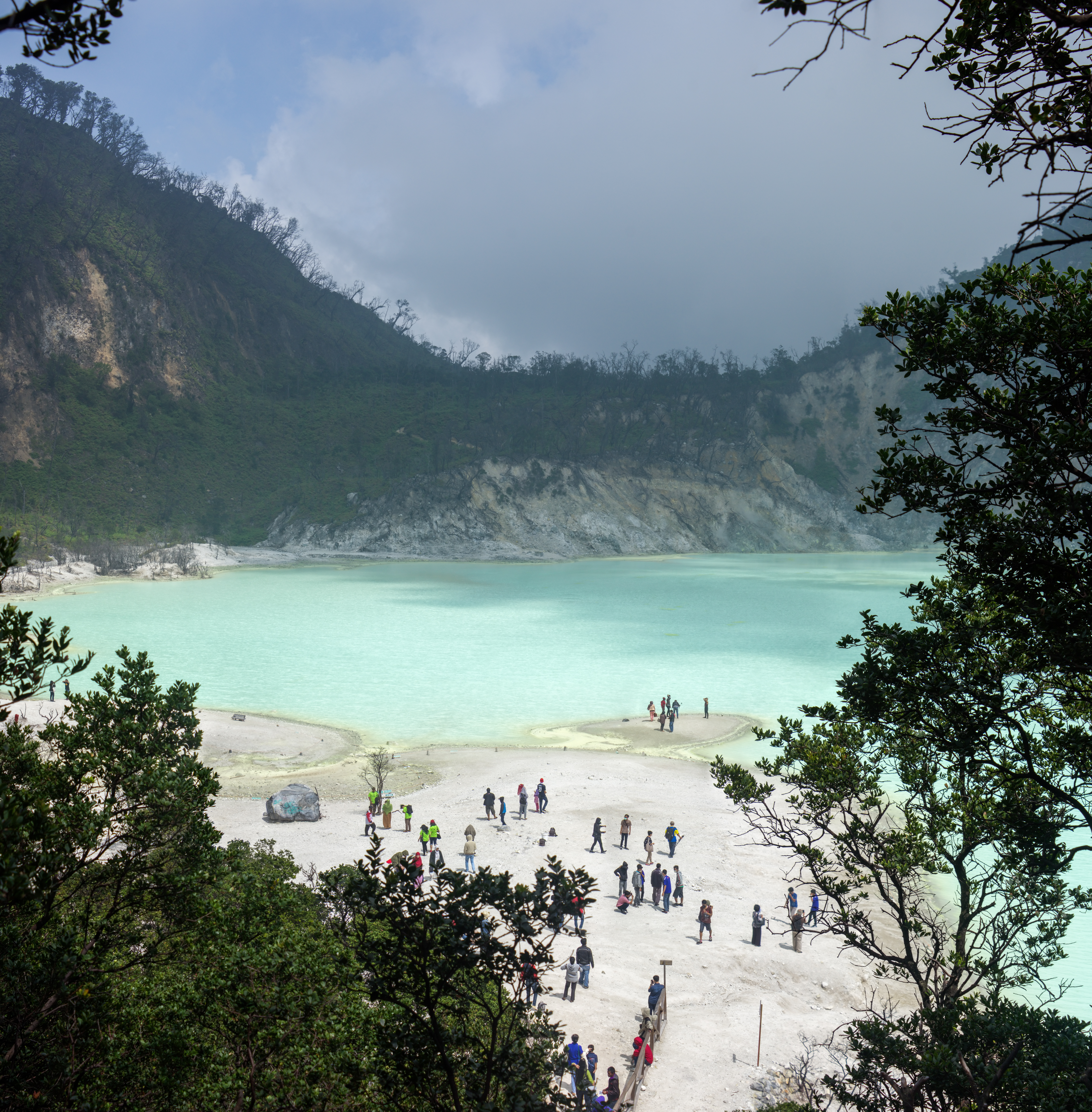 Kawah Putih Lake from the viewing platform, Bandung Regency, 2014-08-21. Stitched from 30+ images.